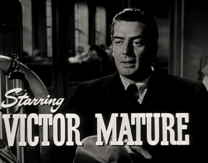 Victor Mature in Cry of the City (1948) - trailer (cropped screenshot)